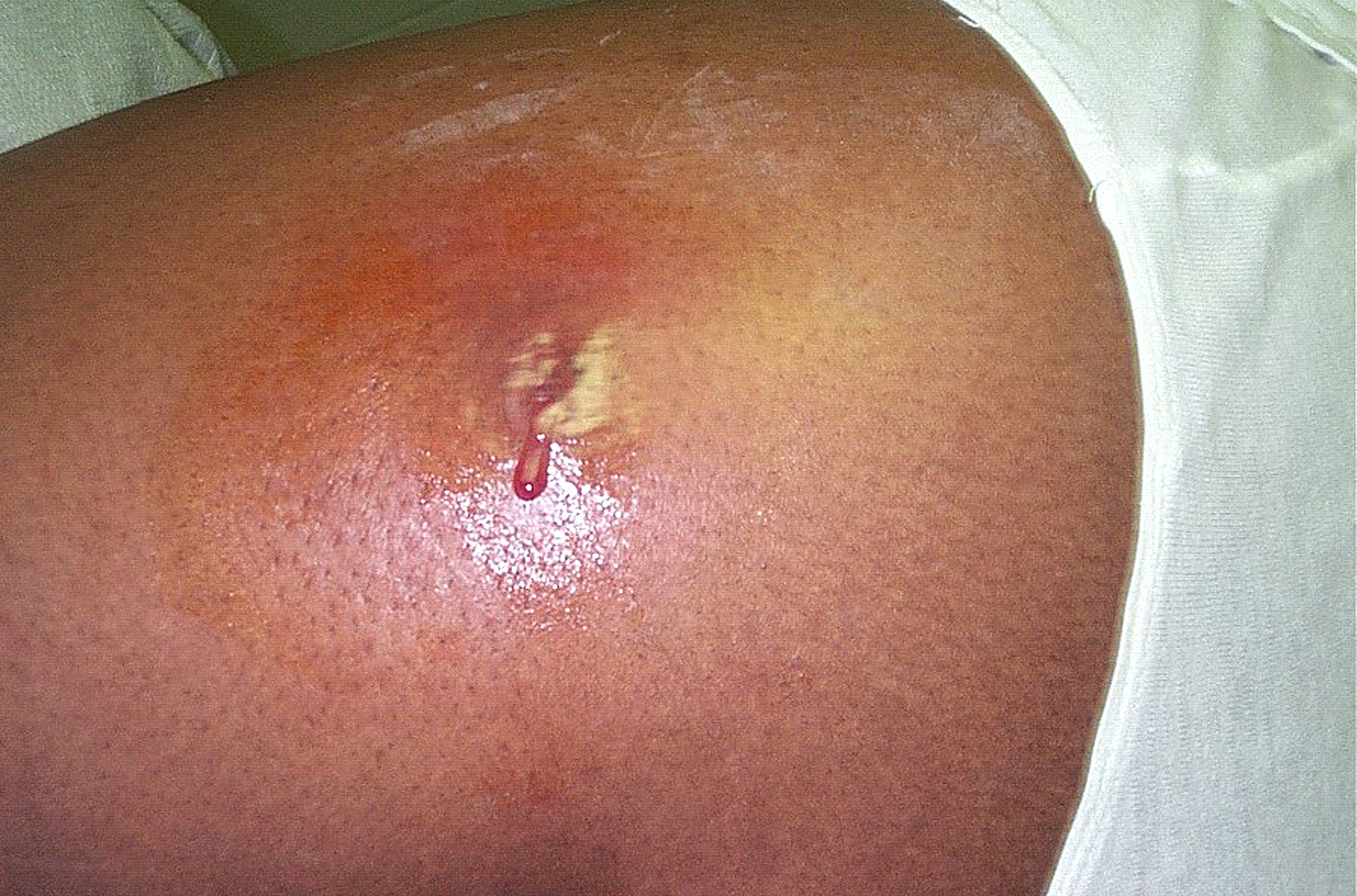 This 2005 photograph (low resolution version) depicted a cutaneous abscess located on the hip of a prison inmate, which had begun to spontaneously drain, releasing its purulent contents. The abscess was caused by methicillin-resistant Staphylococcus aureus bacteria, referred to by the acronym MRSA. S. aureus bacteria are amongst the populations of bacteria normally found existing on ones skin surface. However, over time, various populations of these bacteria have become resistant to a number of antibiotics, which makes them very difficult to fight when attempting to treat infections where MRSA bacteria are the responsible pathogens. These antibiotics include methicillin and other more common antibiotics such as oxacillin, penicillin and amoxicillin. Staph infections, including MRSA, occur most frequently among persons in hospitals and healthcare facilities such as nursing homes and dialysis centers, who have weakened immune systems, however, the manifestation of MRSA infections that are acquired by otherwise healthy individuals, who have not been recently hospitalized, or had a medical procedure such as dialysis, or surgery, first began to emerged in the mid- to late-1990's. These infections in the community are usually manifested as minor skin infections such as pimples and boils. Transmission of MRSA has been reported most frequently in certain populations, e.g., children, sports participants, or as was the case here, jail inmates. (CDC) High resolution image (15.56 MB) available at PHIL.